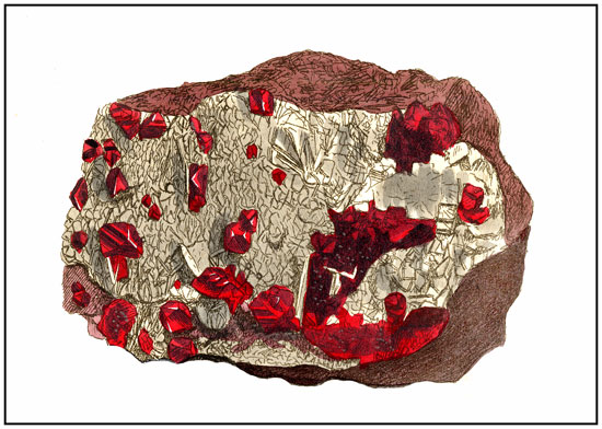 Cinnabar from Almaden, Spain Hand-colored copper-plate engraving (1811) depicting actual-size a 3.7-inch specimen in the collection of the Royal Institute, donated by I. G. Children. Published as Plate 18, Volume 1, of Sowerby's Exotic Mineralogy